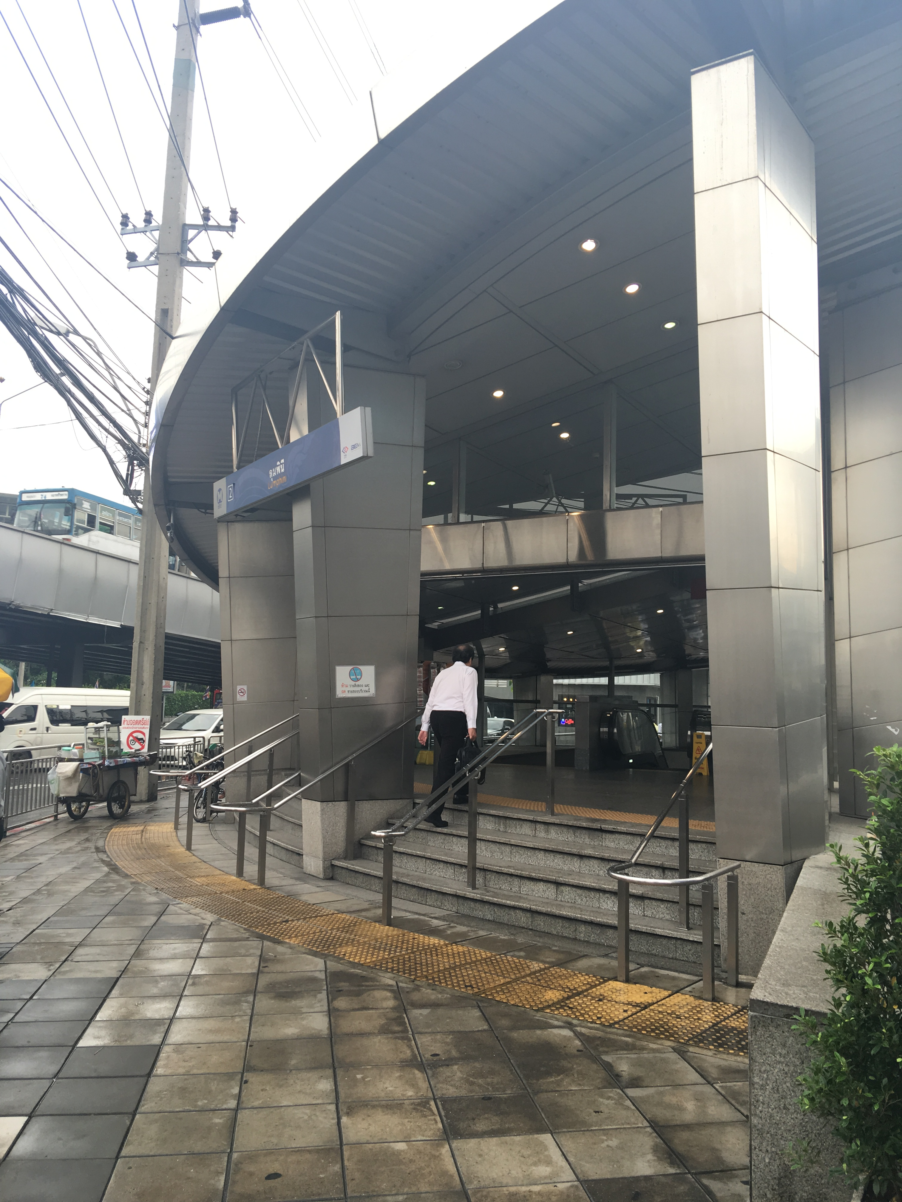 The entrance of Lumphini Station, in front of Q-House Lumphini Building